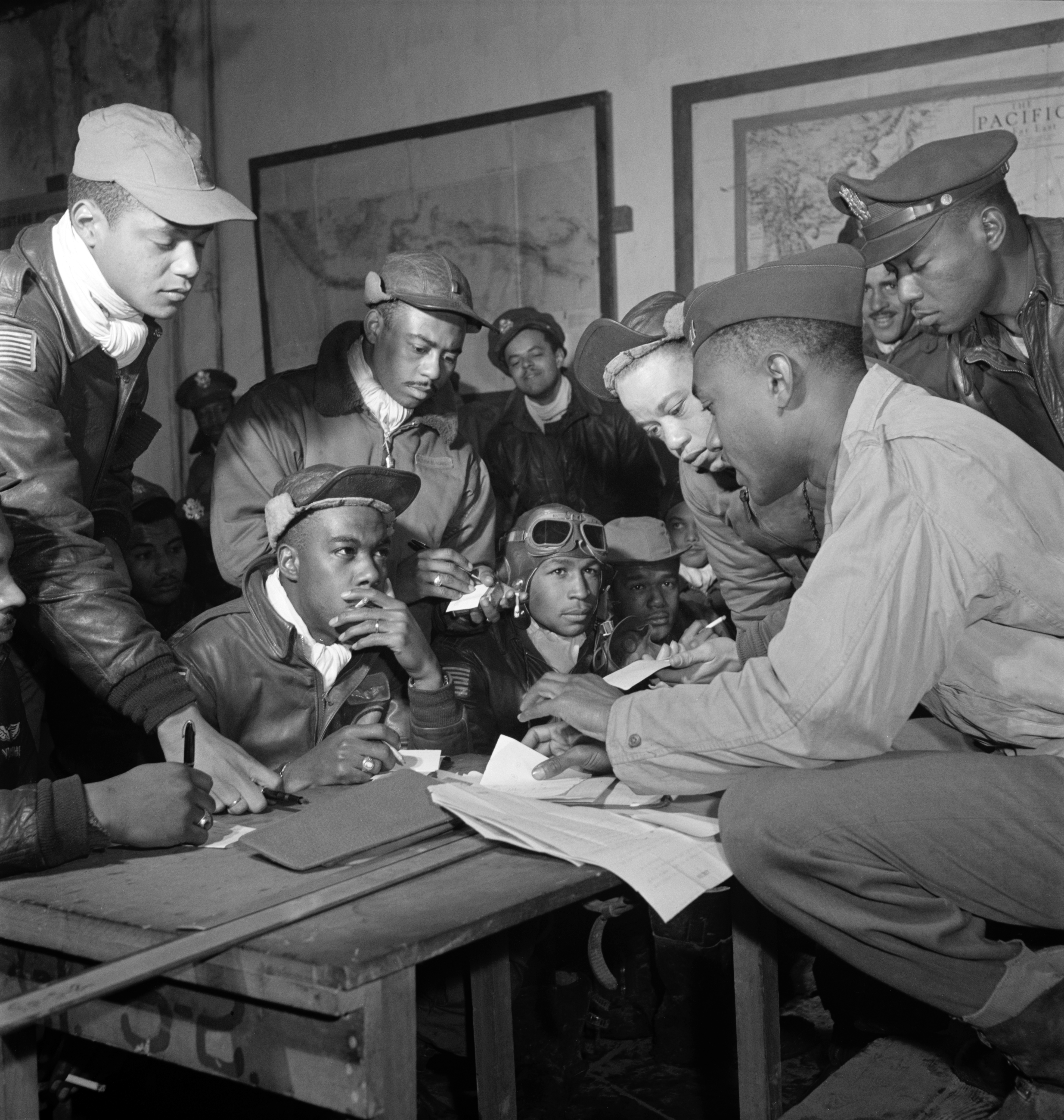 Photograph shows several Tuskegee airmen. Front row, left to right: unidentified airman; Jimmie D. Wheeler (with goggles); Emile G. Clifton (cloth cap) San Francisco, CA, Class 44-B. Standing left to right: Ronald W. Reeves (cloth cap) Washington, DC, Class 44-G; Hiram Mann (leather cap); Joseph L. "Joe" Chineworth (wheel cap) Memphis, TN, Class 44-E; Elwood T. Driver? Los Angeles, CA, Class 44-A; Edward "Ed" Thomas (partial view); Woodrow W. Crockett (wheel cap); at Ramitelli, Italy, March 1945. (Source: Tuskegee Airmen 332nd Fighter Group pilots.)